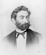 Emil Selenka (1842-1902), German zoologist and embryologist, probably during his stay in Leiden (1868-1874)